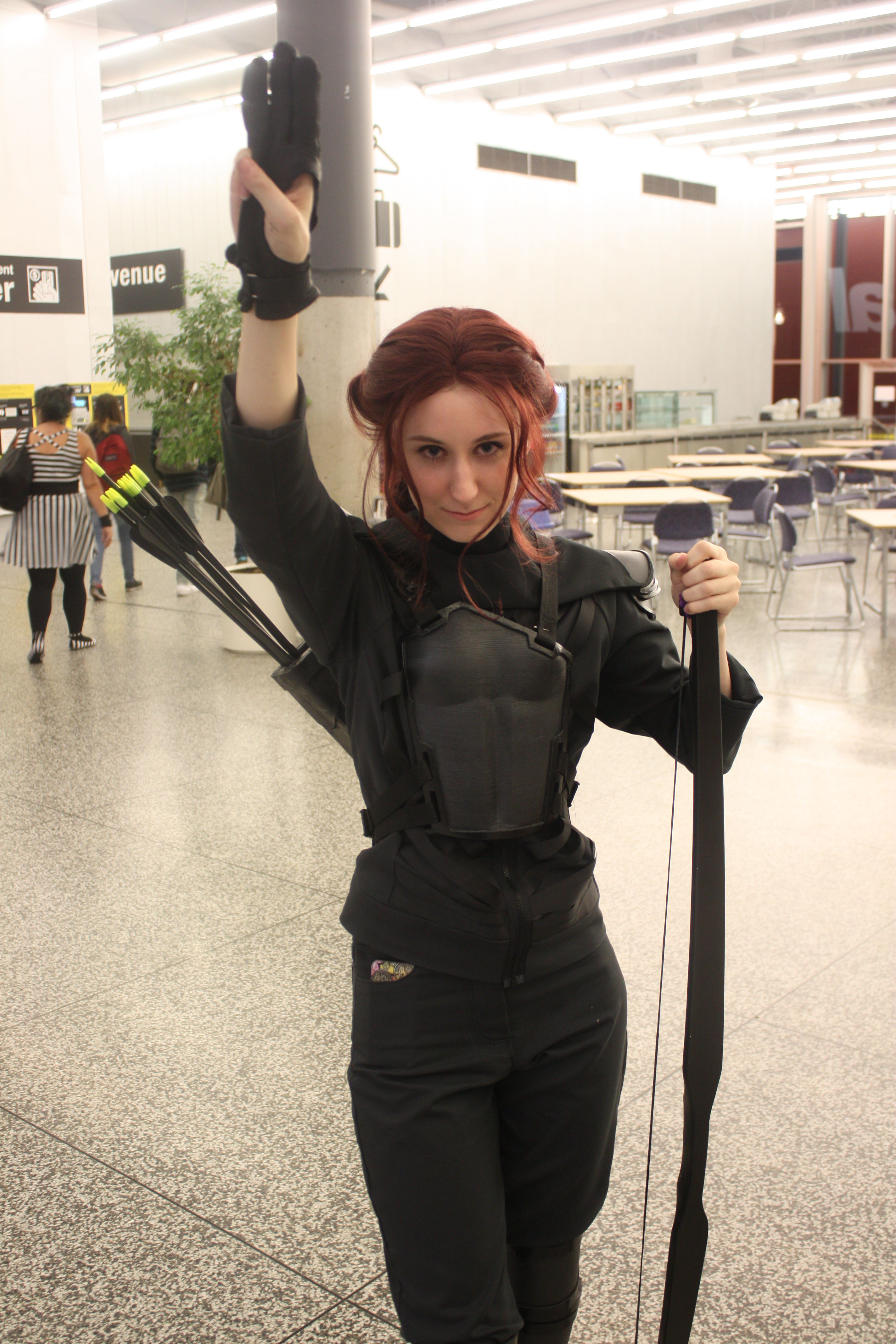 Cosplay one day two of Montreal Comiccon 2015.